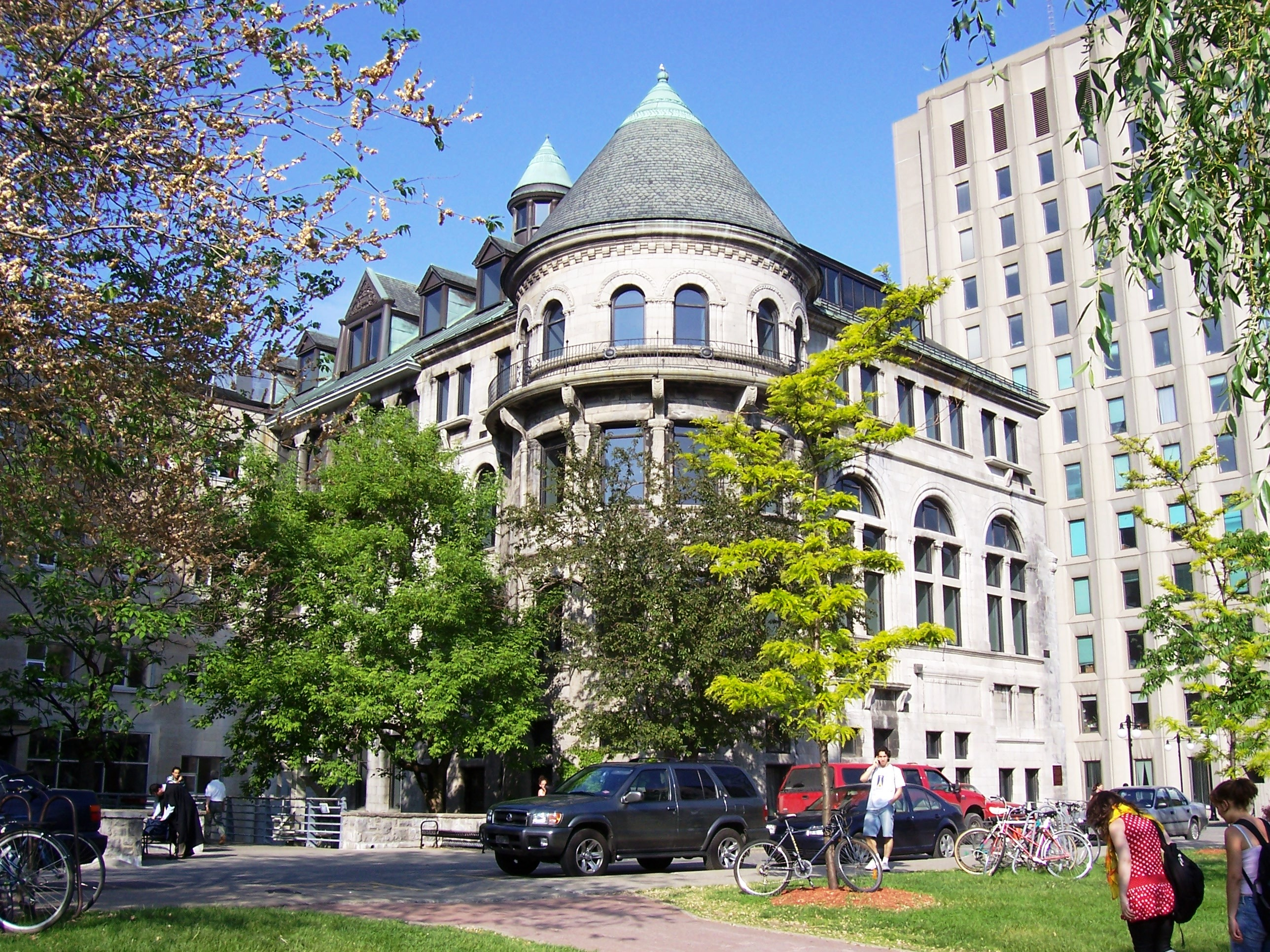 Photo of the Schulich Library of Science and Engineering on the McGill University downtown campus. Uploaded by en.wikipedia user Beltz.